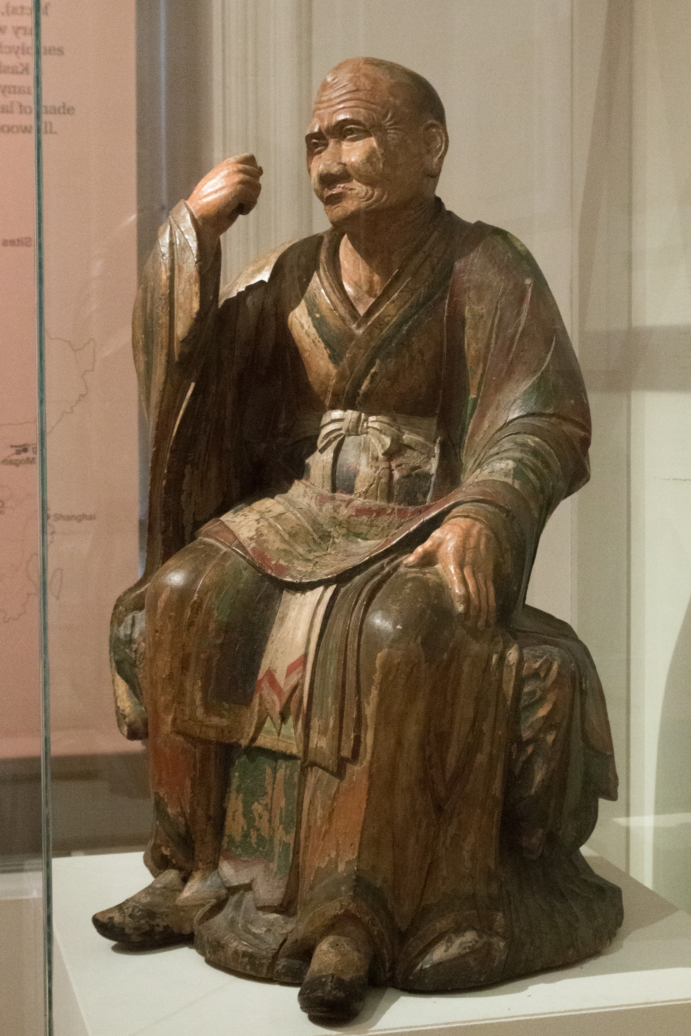 Luohan Kashyapa (oldest of Budda´s pupils). China, Liao dynasty, 10. až 11. century AD. Polychromed wood. Prague, NG Vp 2886.